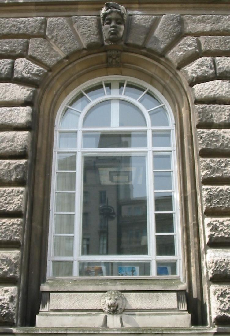 Nrf: Liverpool